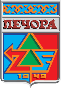 Pechora (Komia), coat of arms (1983)